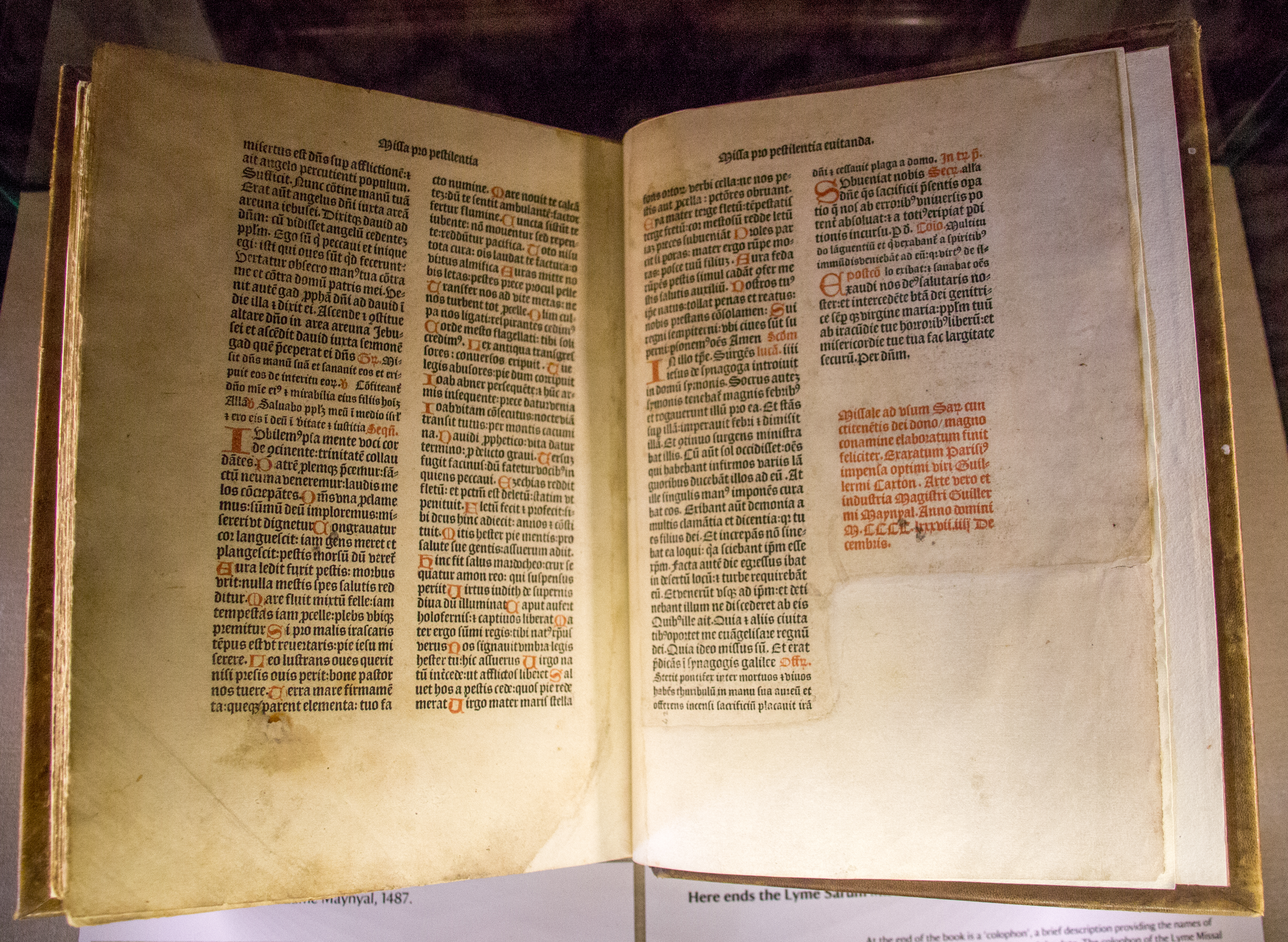 Lyme Park, United Kingdom "Missale ad usum Sarum. Paris, William Caxton and Guillaume Maynyal, 1487"